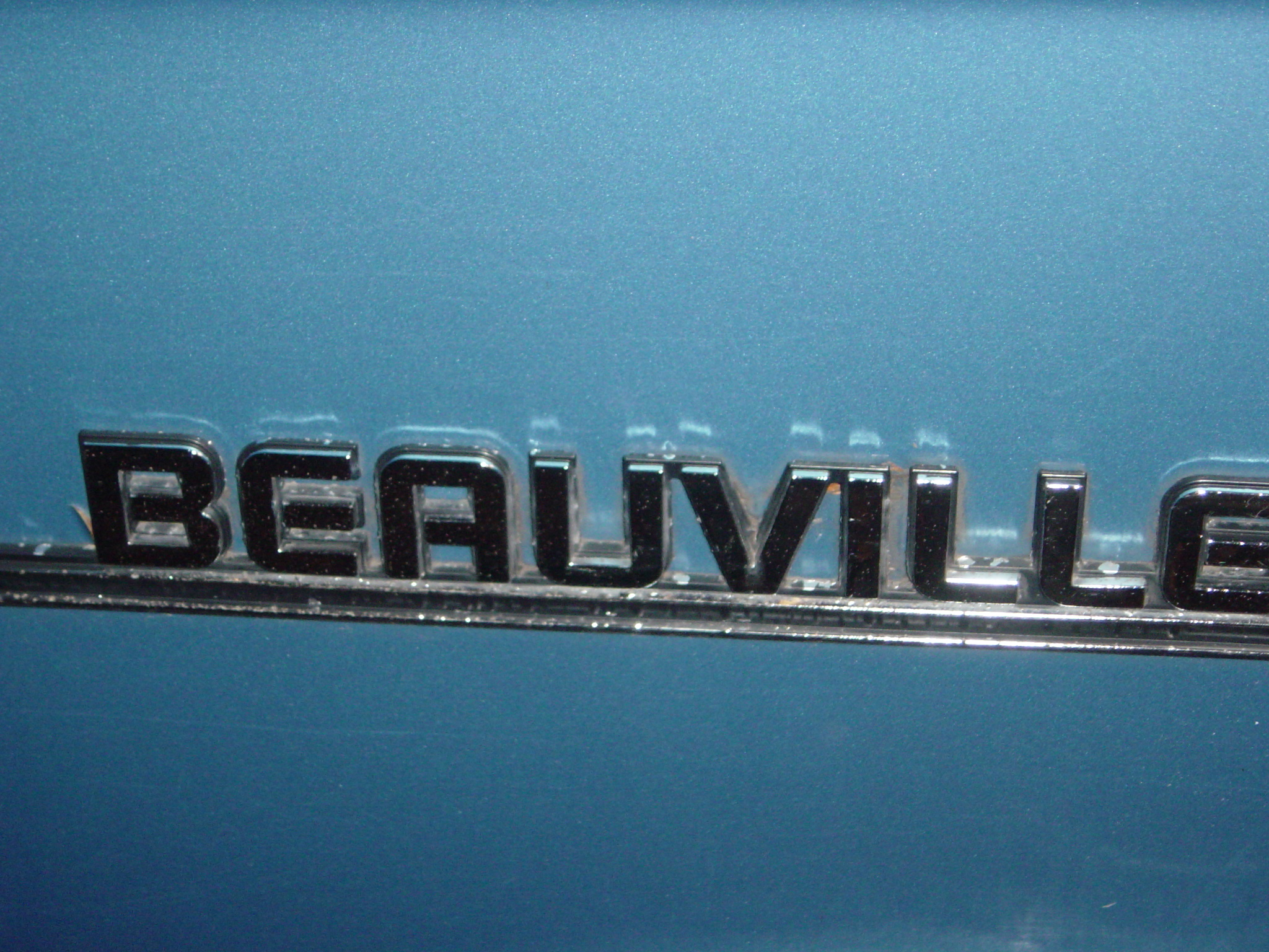 Chevrolet Beauville 1995. I took this picture myself, therefore it has no copyright.